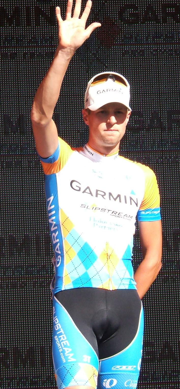 Named cyclist at the en:2009 Tour Down Under team presentation